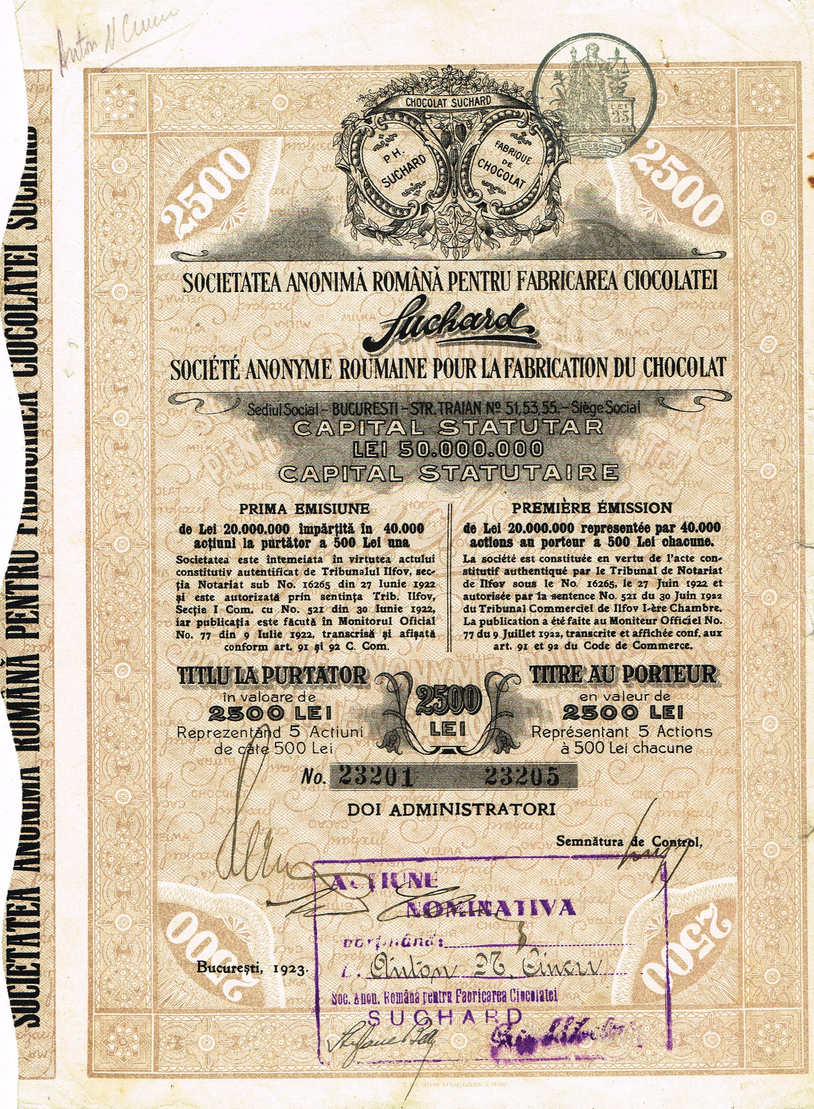 Share of the S. A. Romana Pentru Fabricarea Ciocolatei Suchard, issued 1923